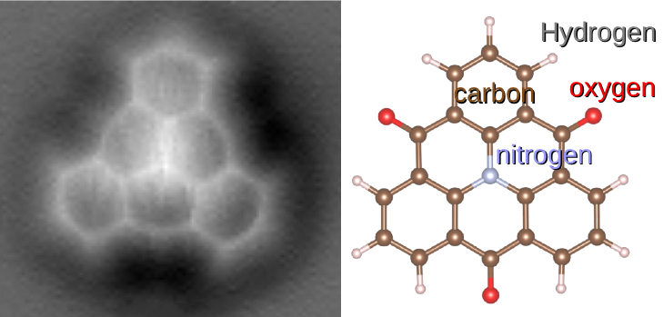 AFM image of 1,5,9-trioxo-13-azatriangulene (TOAT) molecule on Cu(111)